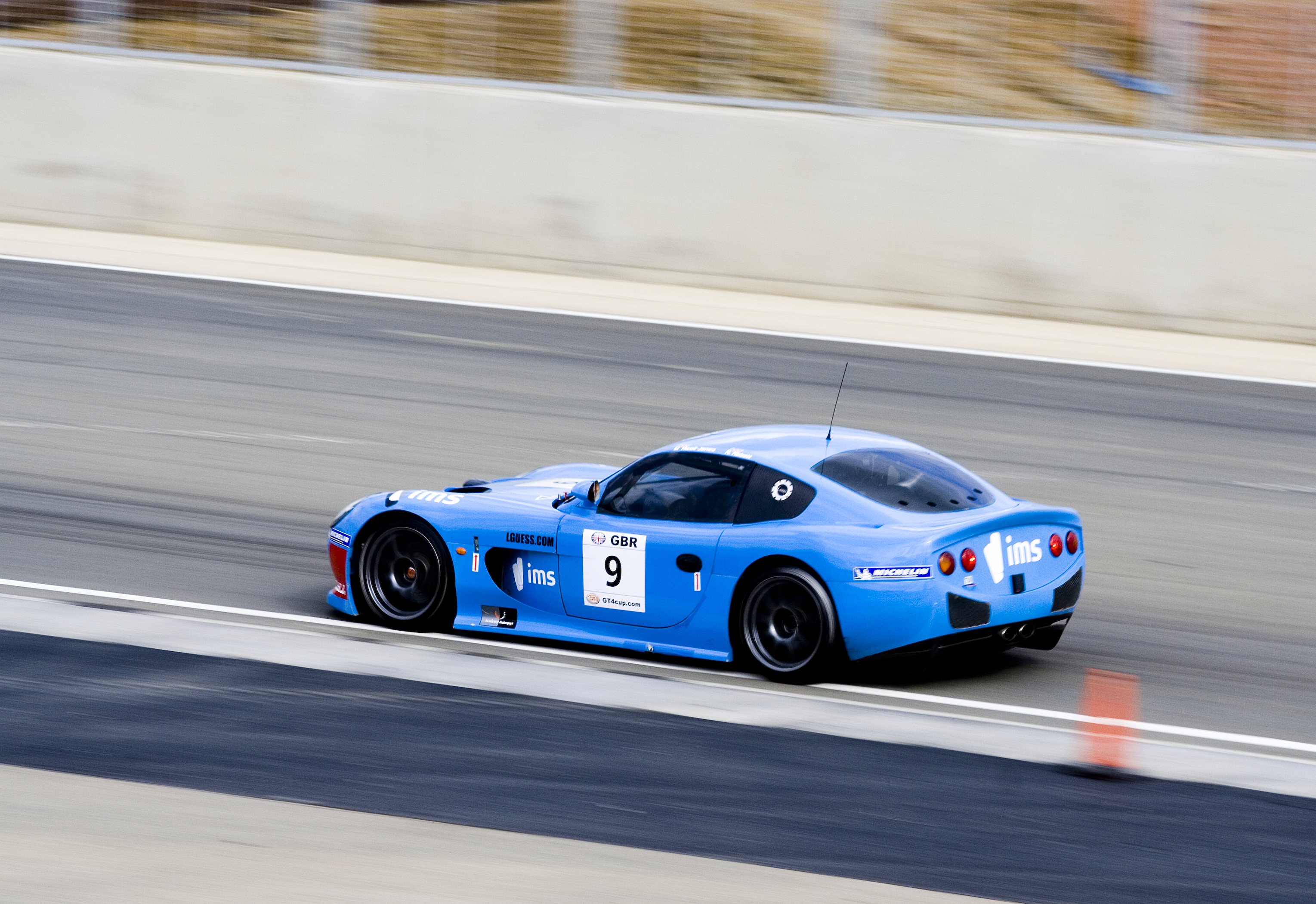 GT4 European Cup Race 1 - Ginetta G50 (Speedworks Motorsports)